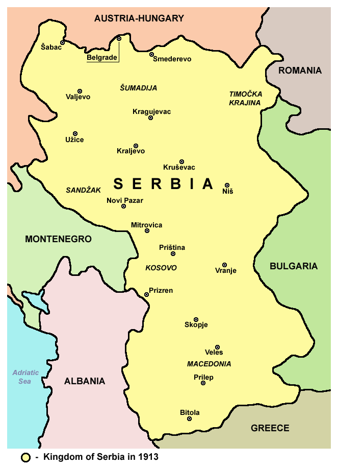 Map of the Kingdom of Serbia in 1913 - territorial enlargement after Balkan wars.